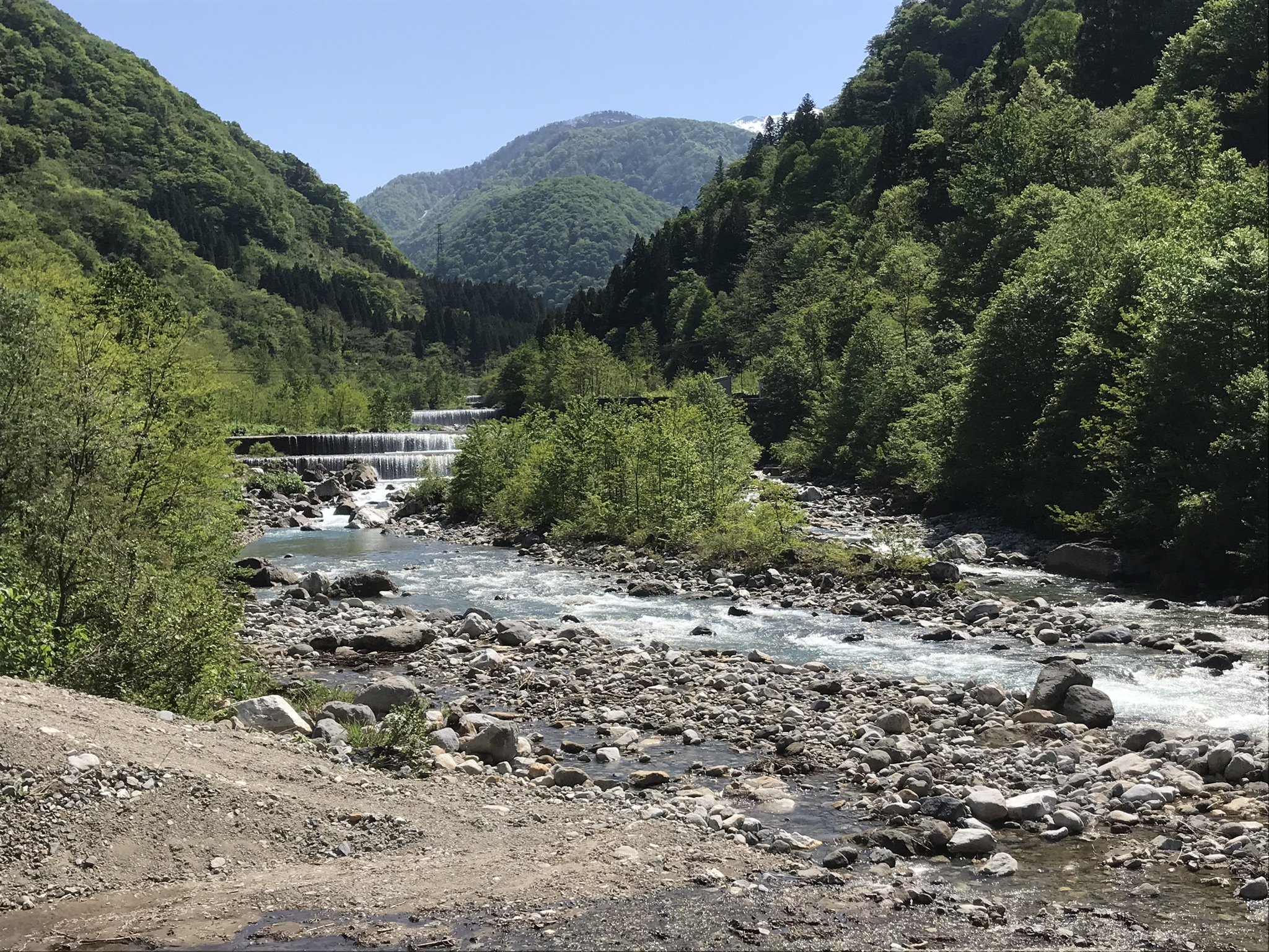 富山県の川